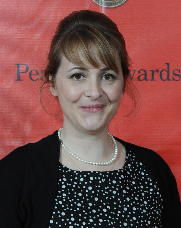 PHOTO CREDIT: ANDERS KRUSBERG / PEABODY AWARDS Kelly McEvers and Deborah Amos, 72nd Annual Peabody Awards Luncheon Waldorf-Astoria Hotel, May 20, 2013